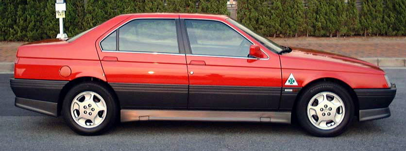 Description: Alfa164 Quadrifoglio (E-164AG) Source: Toshi_156 Auther: Toshi_156 Location: Kobe,Hyogo,Japan